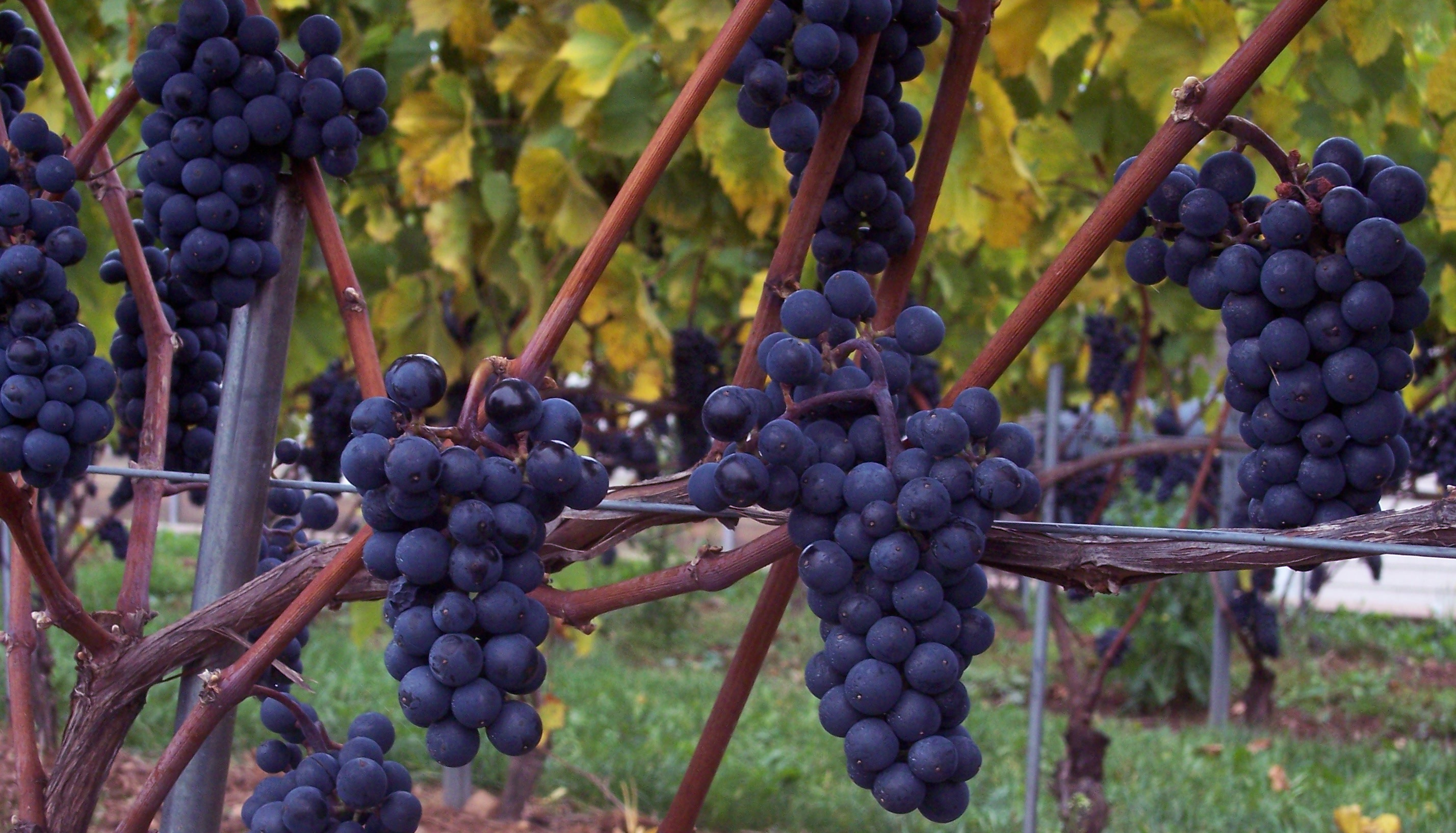 Hybrid Marechal Foch grapes growing in the Canadian wine region of Nova Scotia